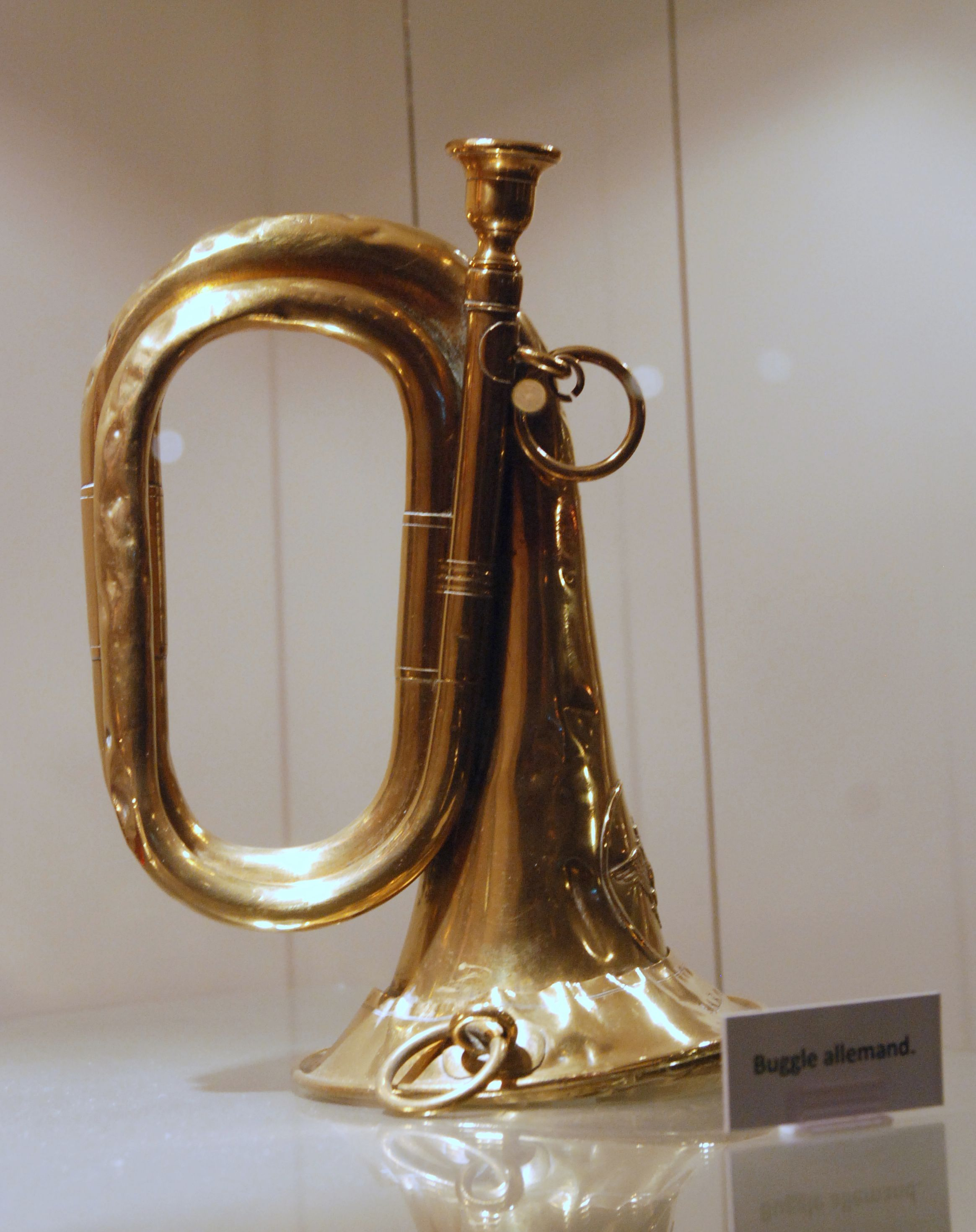 German military bugle, the World War I; the Verdun Memorial, Fleury-devant-Douaumont, France